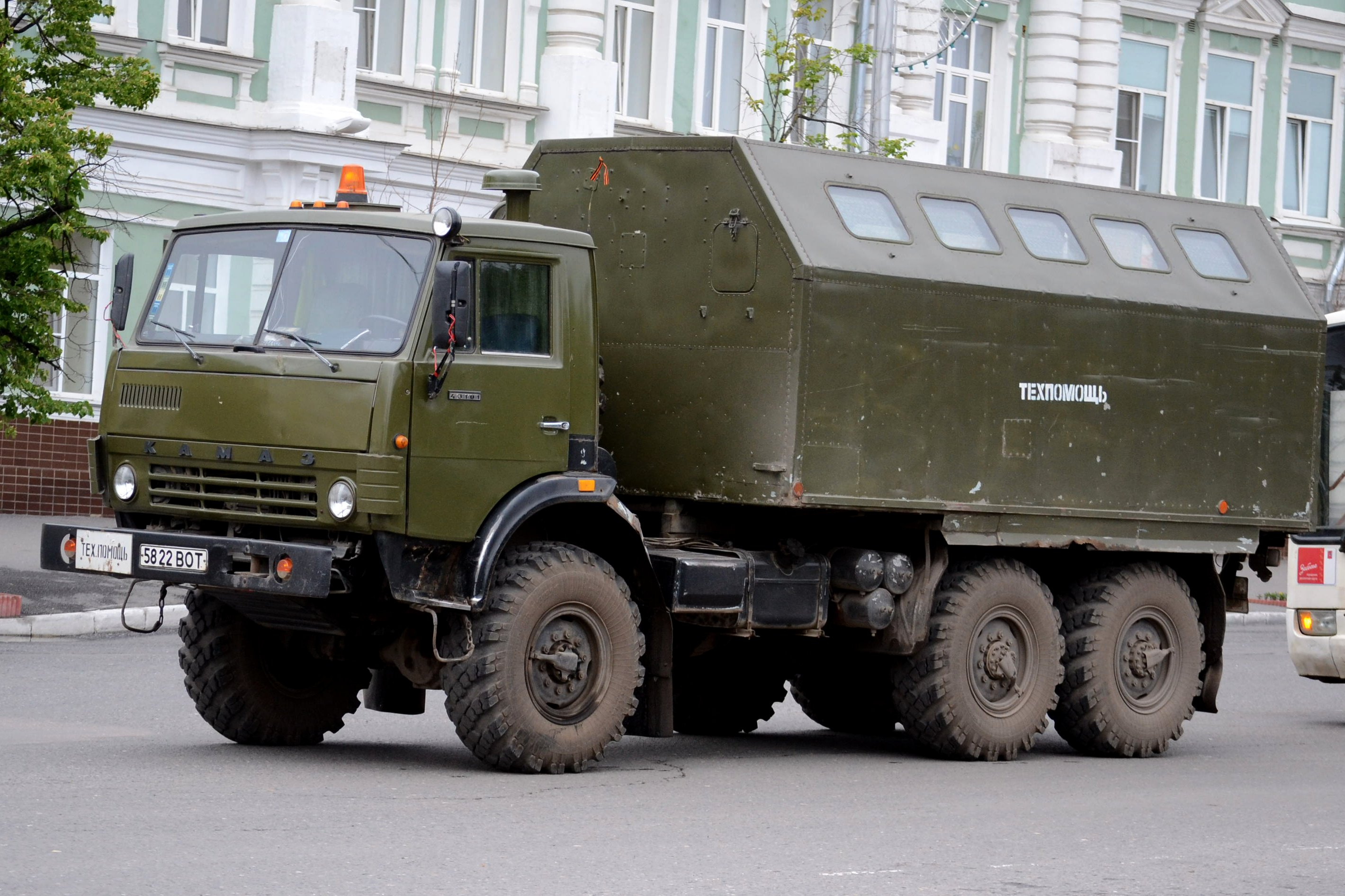 KamAZ-43101